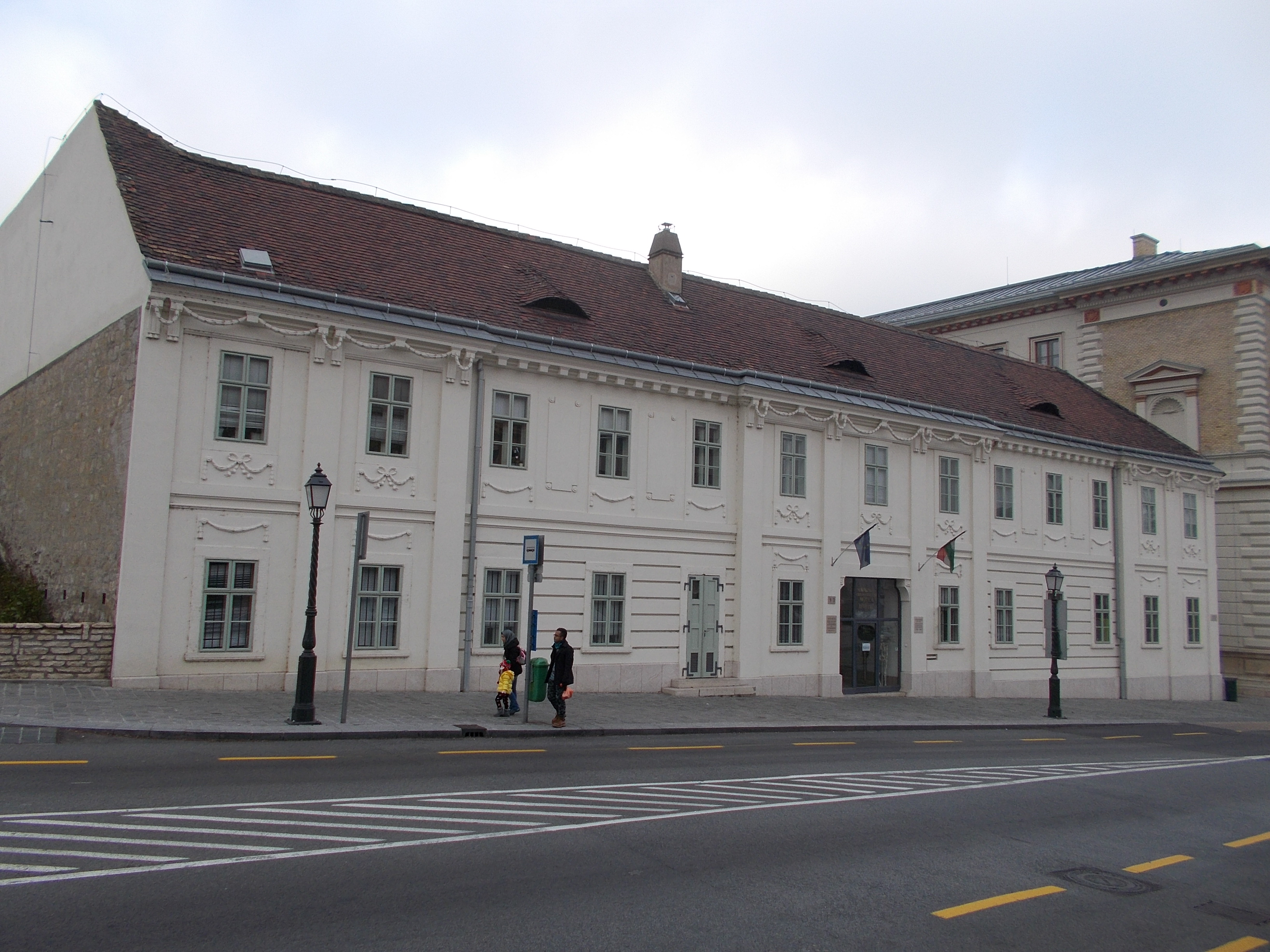 Late Baroque house, originally built around 1790, rebuilt after the 1810 Tabán fire. Listed building ID: 5. Partially destroyed in 1945 but rebuilt in 1962-64 for the Semmelweis Museum of Medical History. Birthplace of Ignác Semmelweis. - 1-3. Apród utca, District I., Budapest, Hungary.